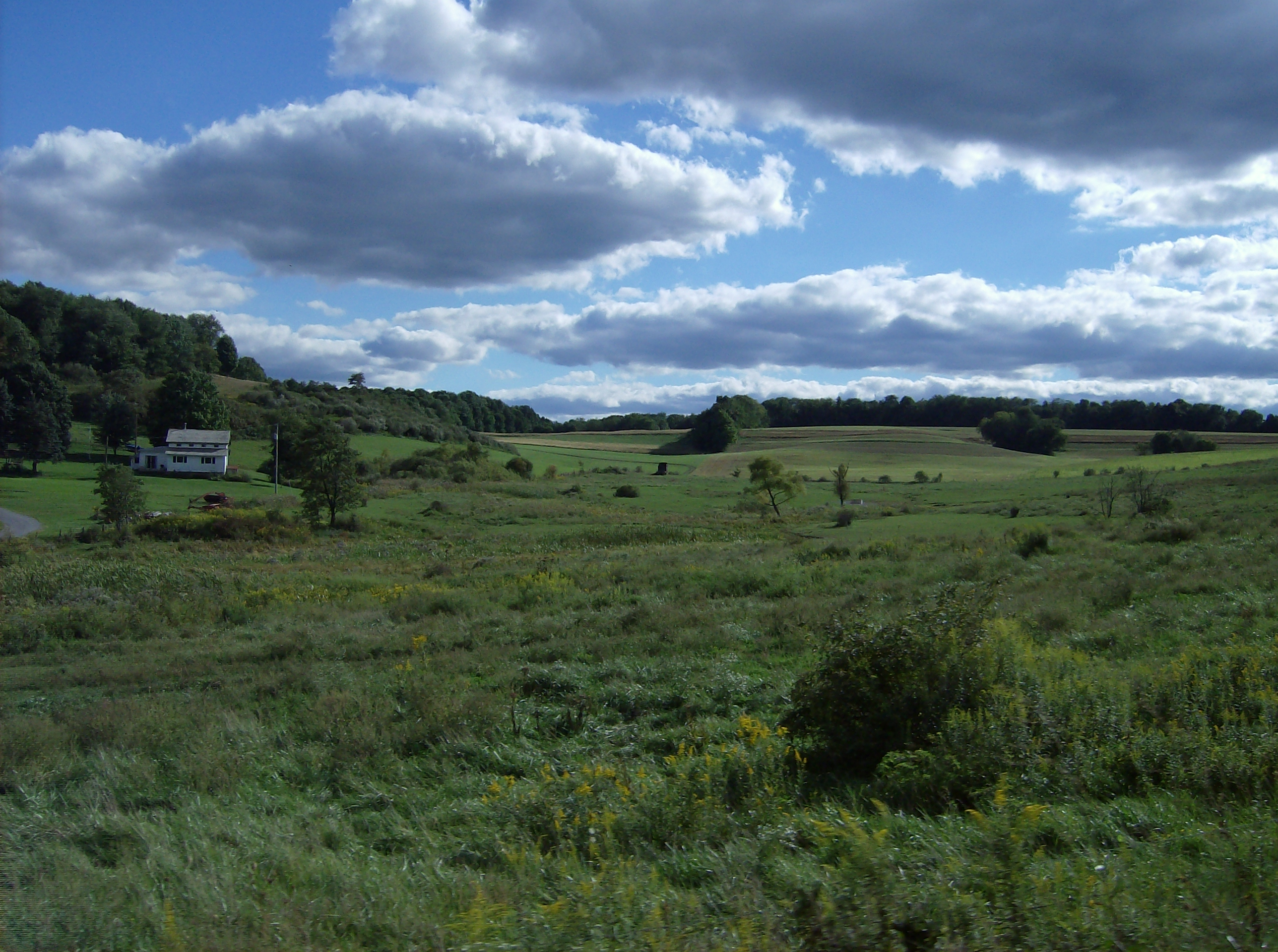 Countryside in western Center Township, Columbiana County, Ohio, United States. Picture taken southward from U.S. Route 30, west of Lisbon.